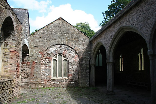 Inside St Peter's Church Looking along the length of the roofless main aisle.